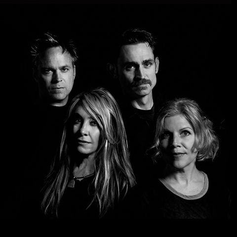 Black and white portrait of the band Belly